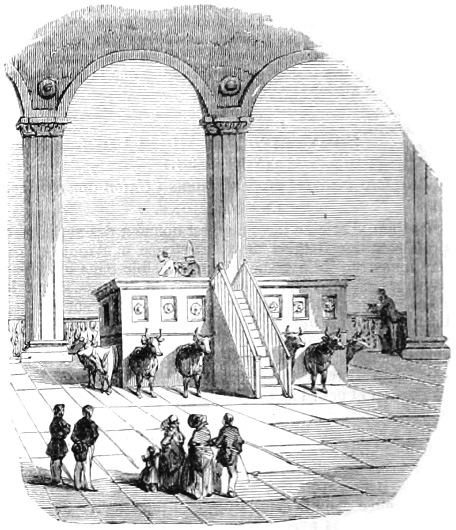 Lit: "Pool of the Mormon church" This is a historically inaccurate artists impression of what they thought the baptismal font of the Nauvoo Temple might have looked like.